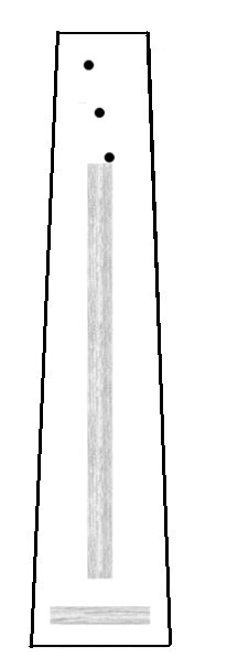 Graphic showing the traditional bowling game in Berantevilla